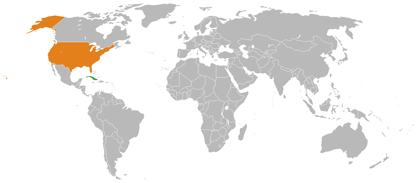 Created by me, using standard blank world map. To be used for Cuban-American relations article. —Nightstallion (?) 12:16, 3 June 2006 (UTC)